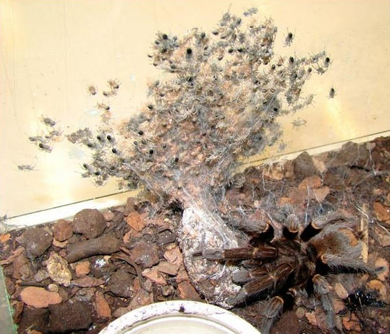 Acanthoscurria gomesiana, young spiderlings emerging from eggbag, attended by female.